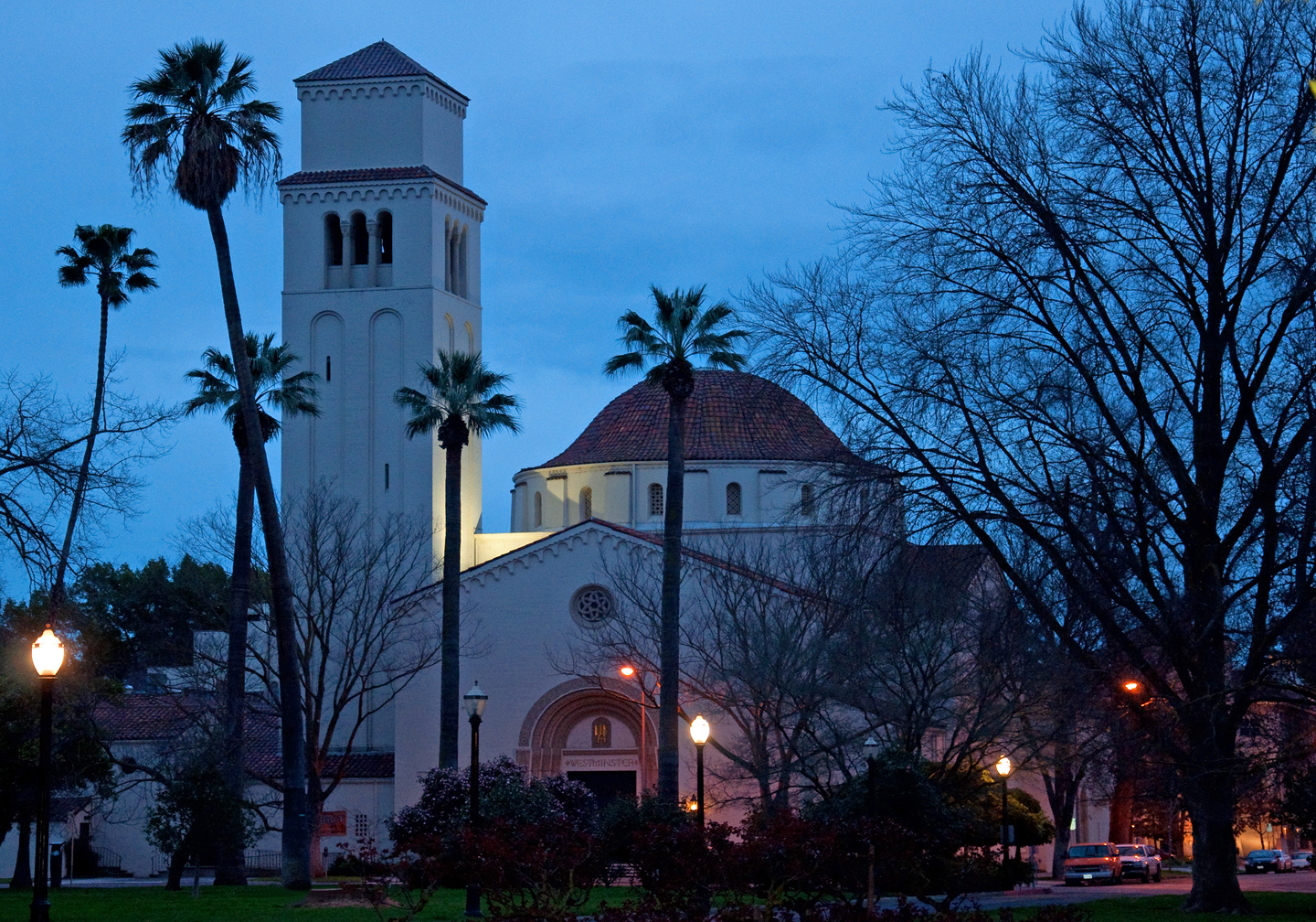 Westminster Presbyterian Church